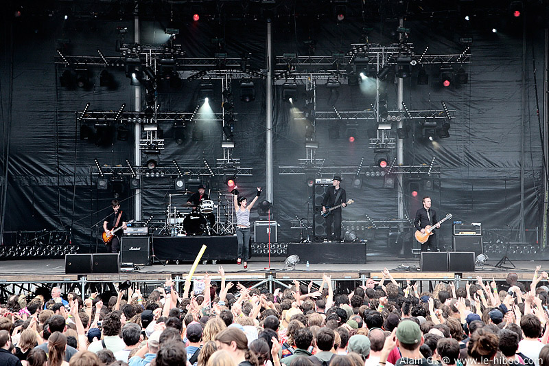 Superbus performing in 2007